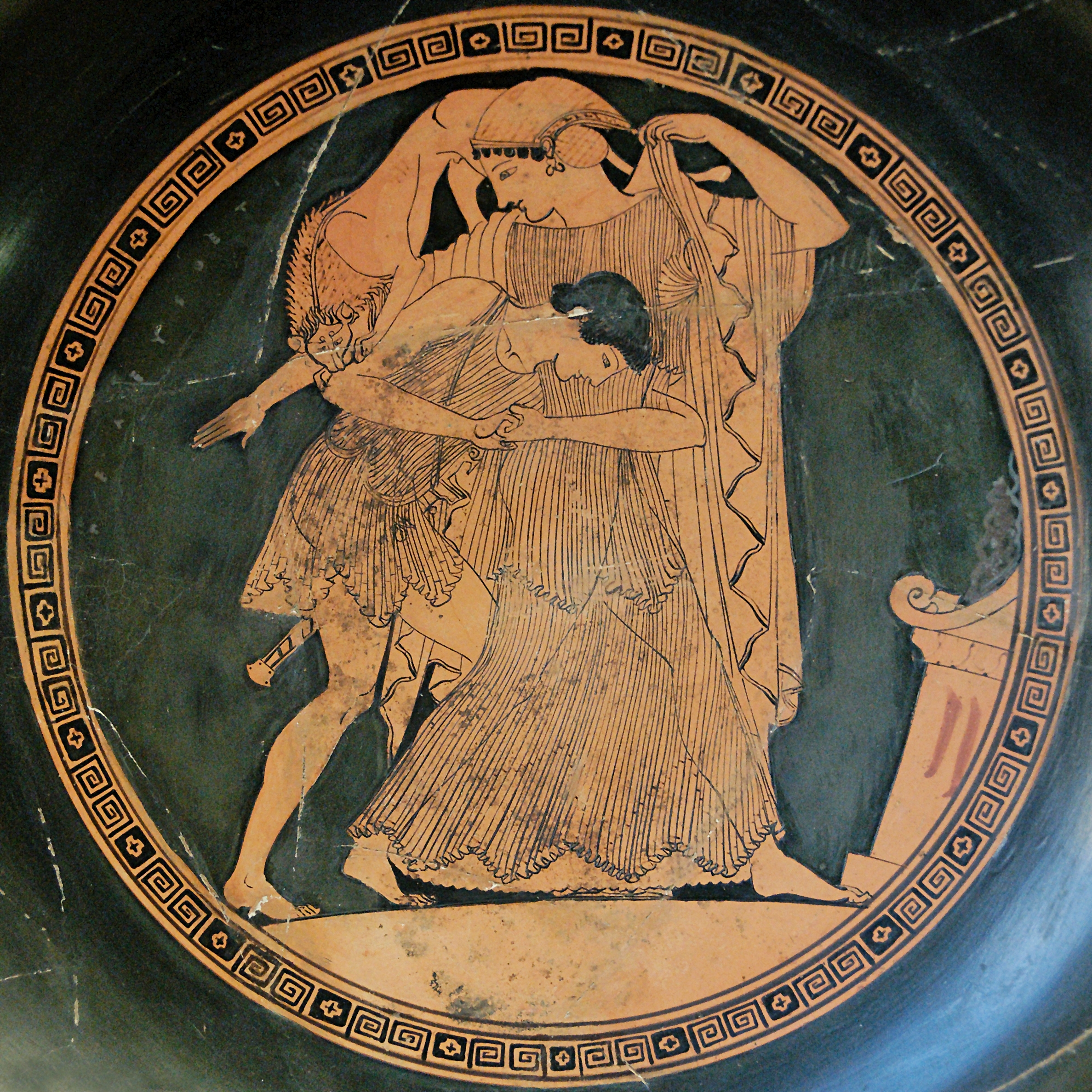 Thetis raped by Peleus. Tondo of an Attic red-figured kylix, ca. 490 BC. From Vulci, Etruria.